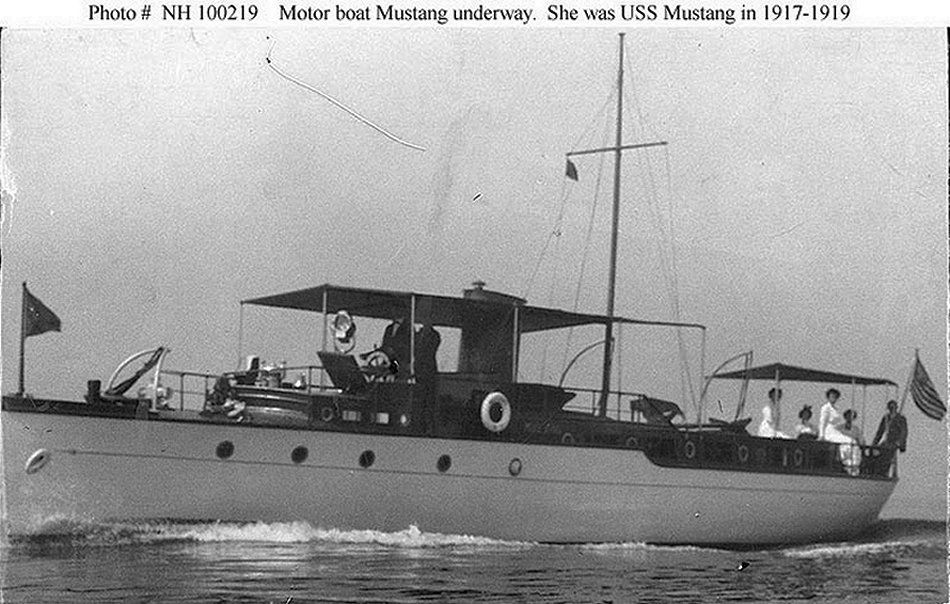 Private motorboat Mustang sometime prior to her 1917-1919 service as United States Navy patrol boat USS Mustang (SP-36)